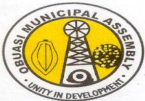 Seal Emblem of Obuasi